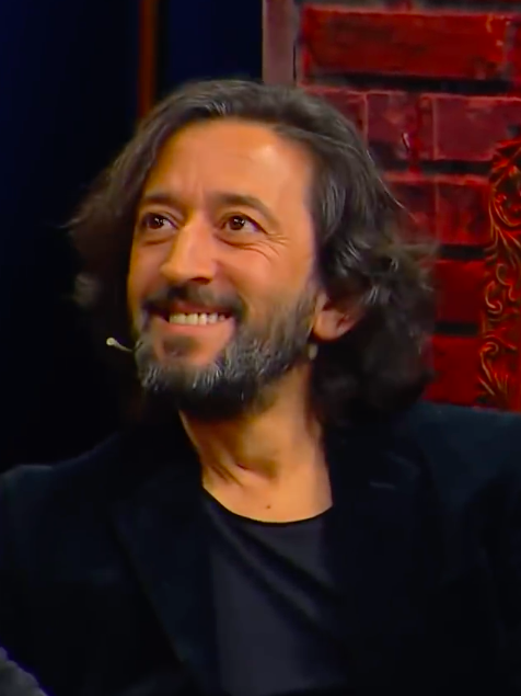 Turkish songwriter Fettah Can during the 23rd episode of Tolgshow hosted by Tolga Çevik.